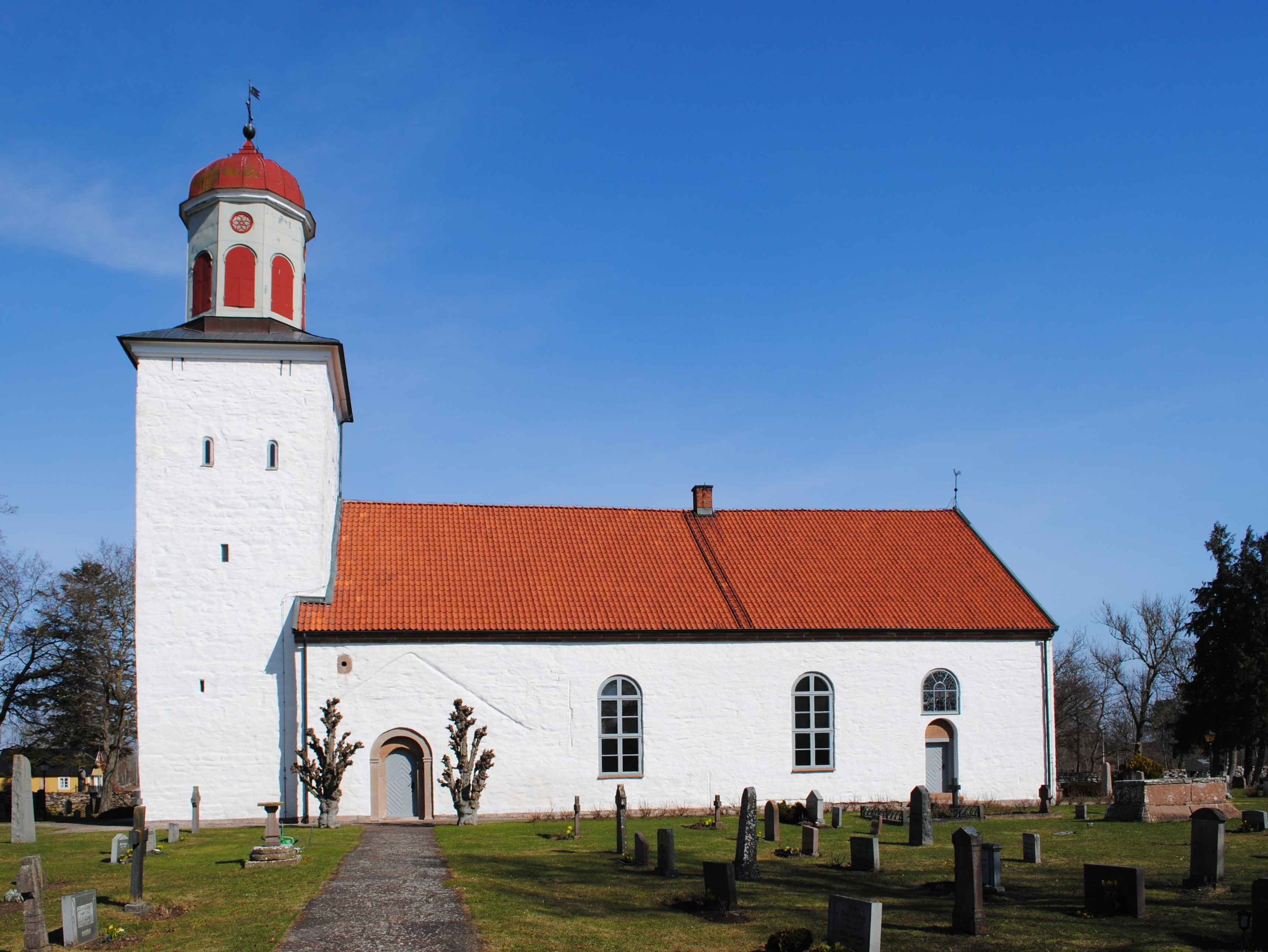 Räpplinge church, Öland.